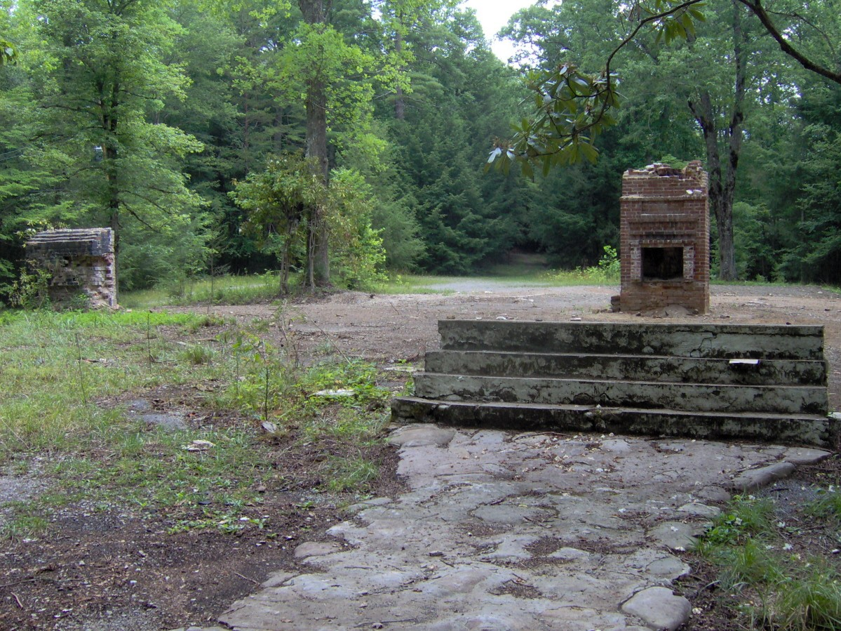 The site of the former Wonderland Hotel in Elkmont, Tennessee (GSMNP). The hotel collapsed in 1994. Today, only a chimney fall remains.